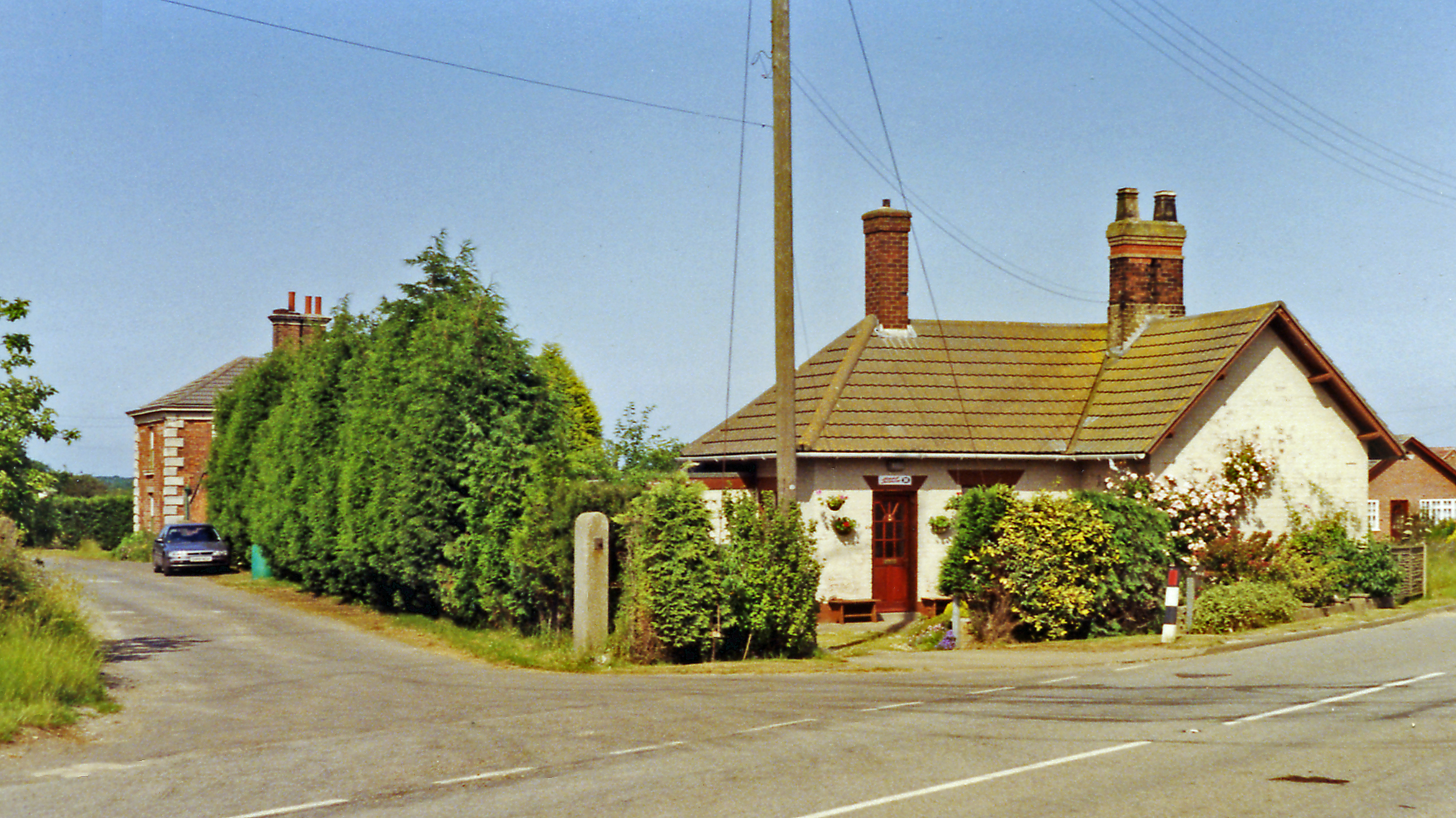 Firsby station site, 1992. View NE on B1165 Station Road at the point where the ex-GNR Peterborough - Spalding - Boston - (to the left) Grimsby main line used to cross, until the 5/10/70 when Firsby station was closed along with all traffic northward to Grimsby, except that goods Louth - Grimsby lasted until 3/10/80. The Mablethorpe Loop (Willoughby - Louth) was also closed on 5/10/70 and the Firsby - Spilsby branch had been closed since 1/12/58 (passenger service ceased 11/9/39). Also the main line Spalding - Boston was closed from 5/10/70, leaving only (Lincoln - Woodhall Junction) - Boston - Firsby South Junction - Skegness, the north - east curve at Firsby being abandoned. In 1992 there was a railway gatepost left and probably the house up the drive on the left had belonged to Firsby station, but an extraordinary transformation had occurred here in nearly 22 years.